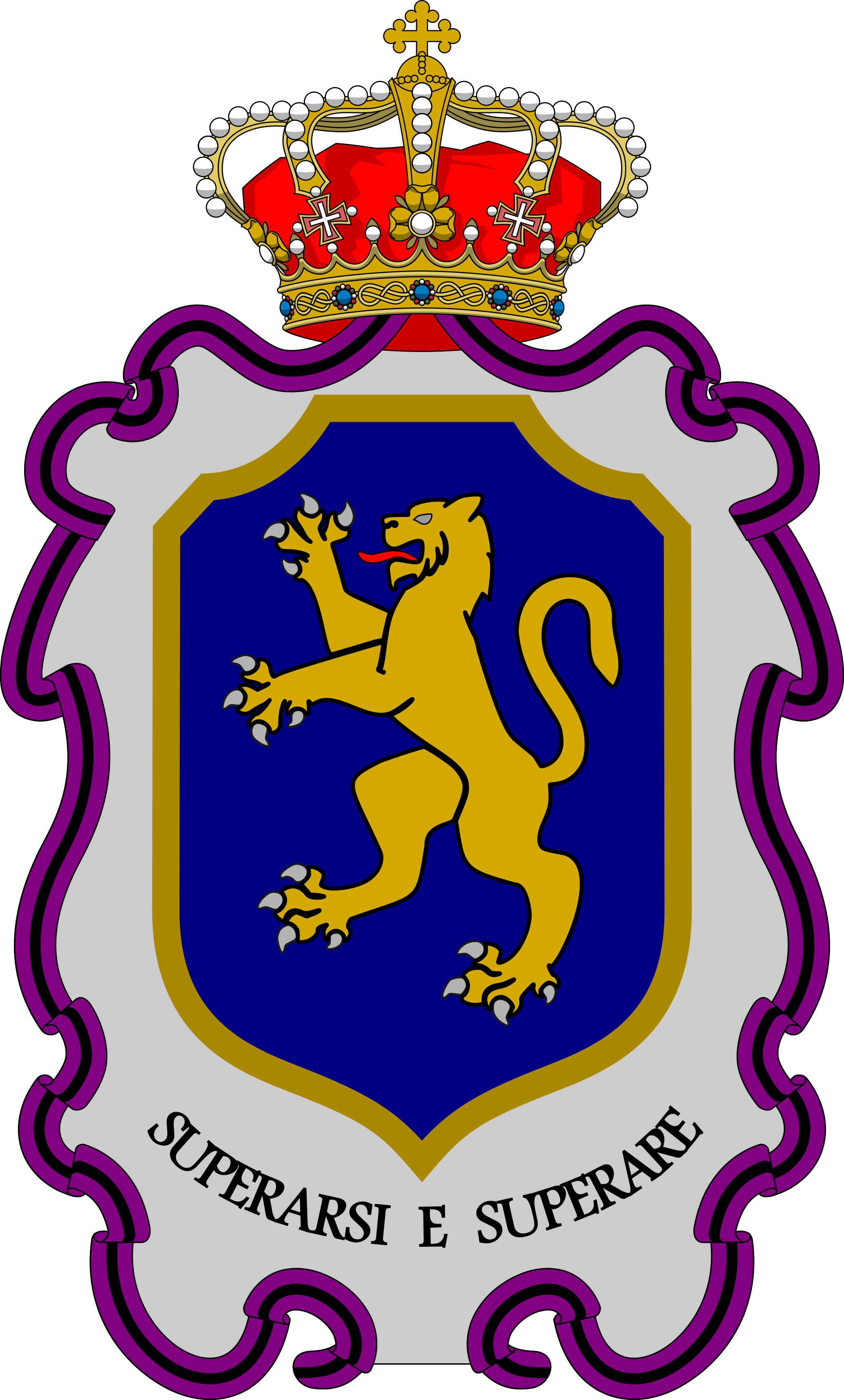 Coat of Arms of the 19th Infantry Regiment "Brescia", Royal Italian Army, 1939